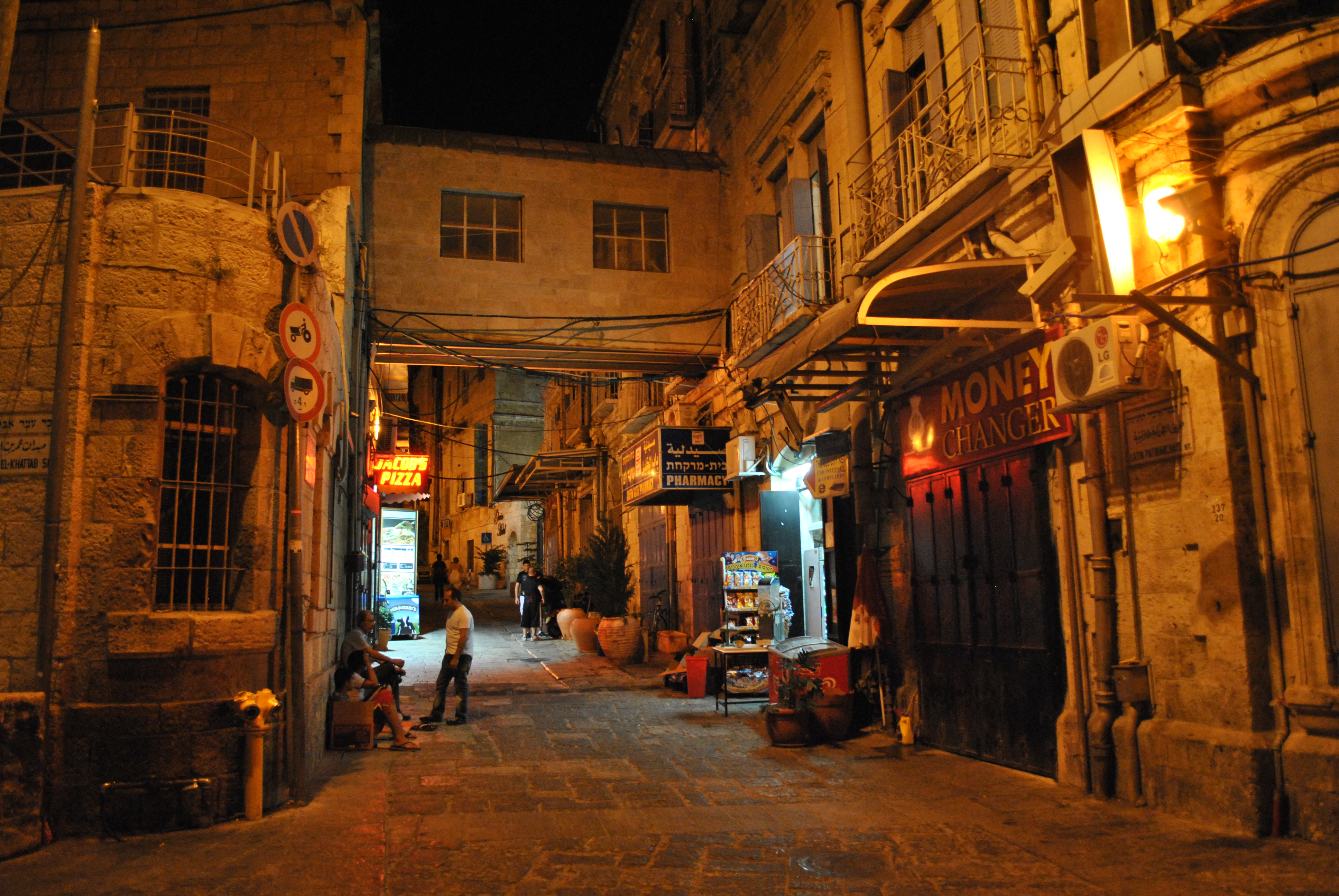 Old Jerusalem, christian quarter, Latin Patriarchate street